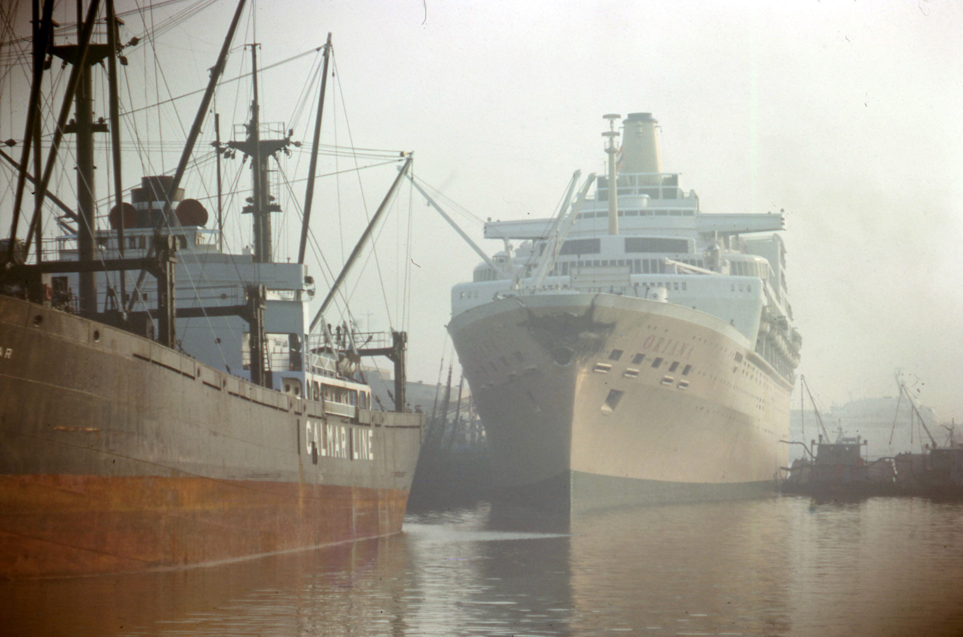 SS Oriana under repair at Los Angeles after colliding with USS Kearsarge December 1962